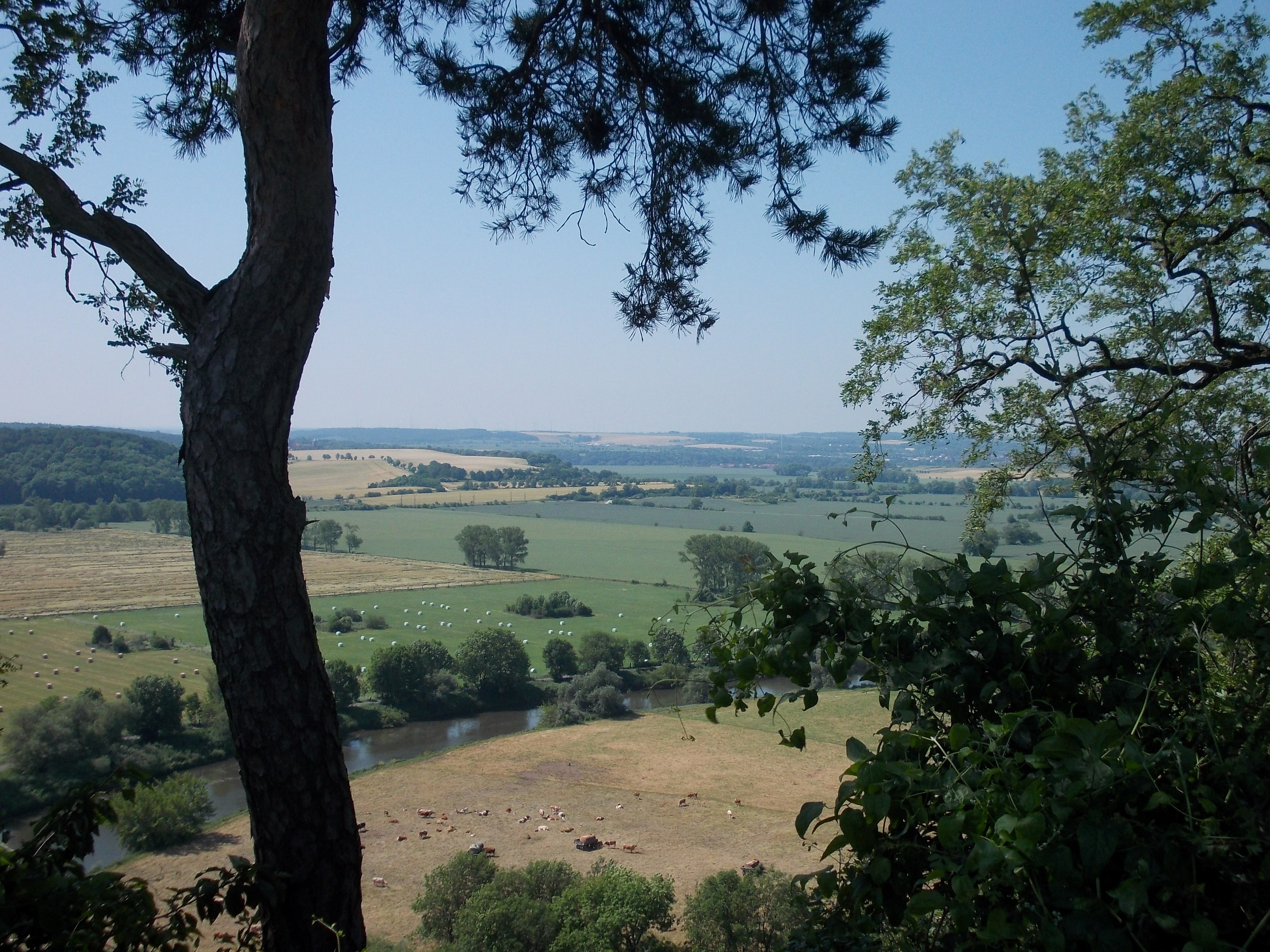 The Saale valley from Igelsberg hill in the nature reserve Saaleaue near Goseck (district: Burgenlandkreis, Saxony-Anhalt)